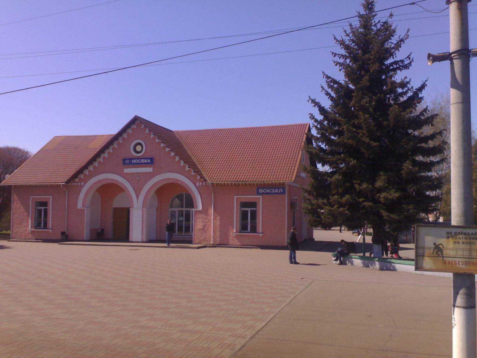 Nosivka railway station, South-Western Railway, Ukraine.